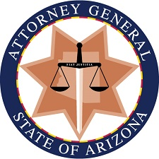 Seal of the Attorney General of Arizona